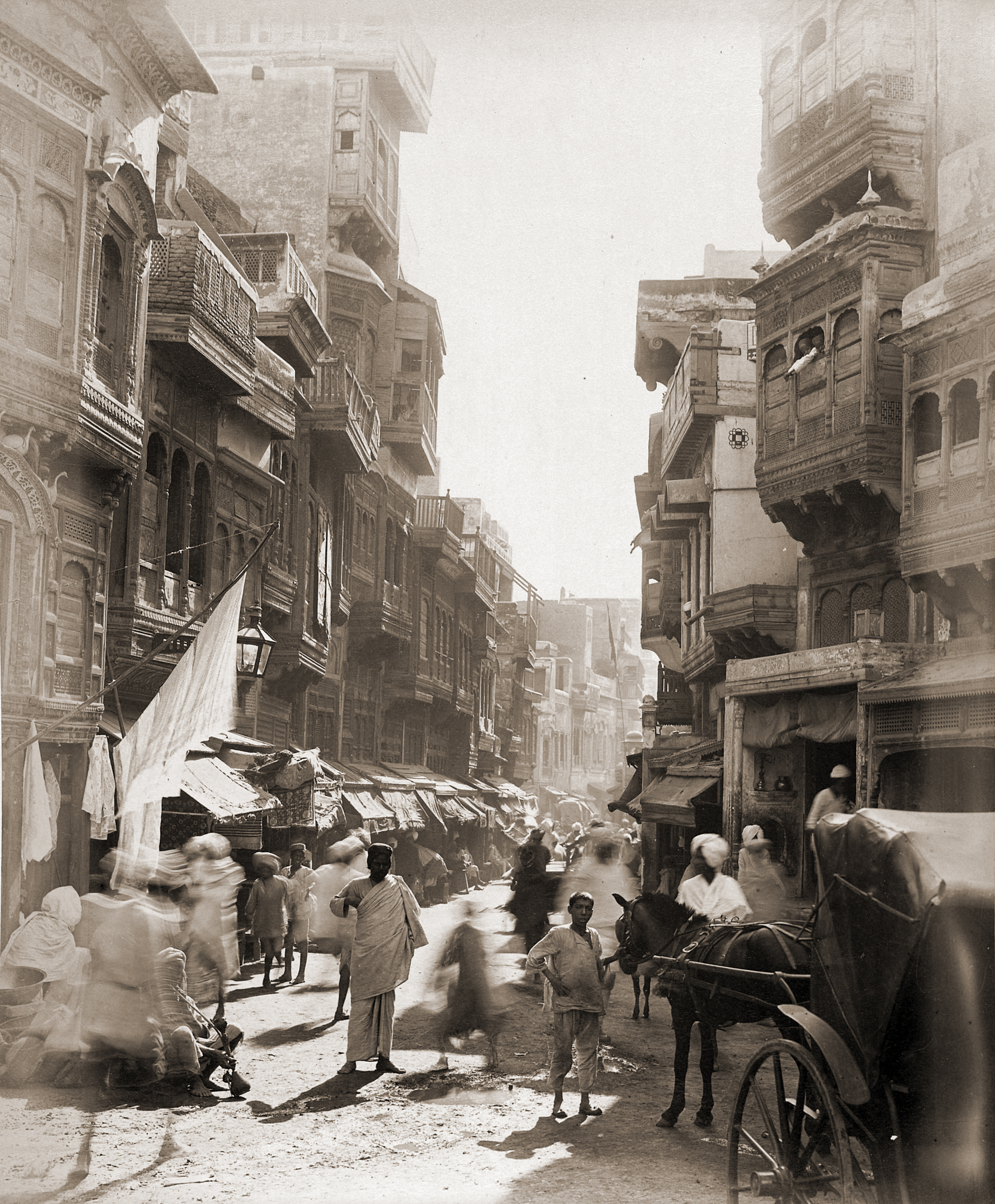 Photograph from the Macnabb Collection of a street scene in Lahore, taken by an unknown photographer, most likely during the 1890s.